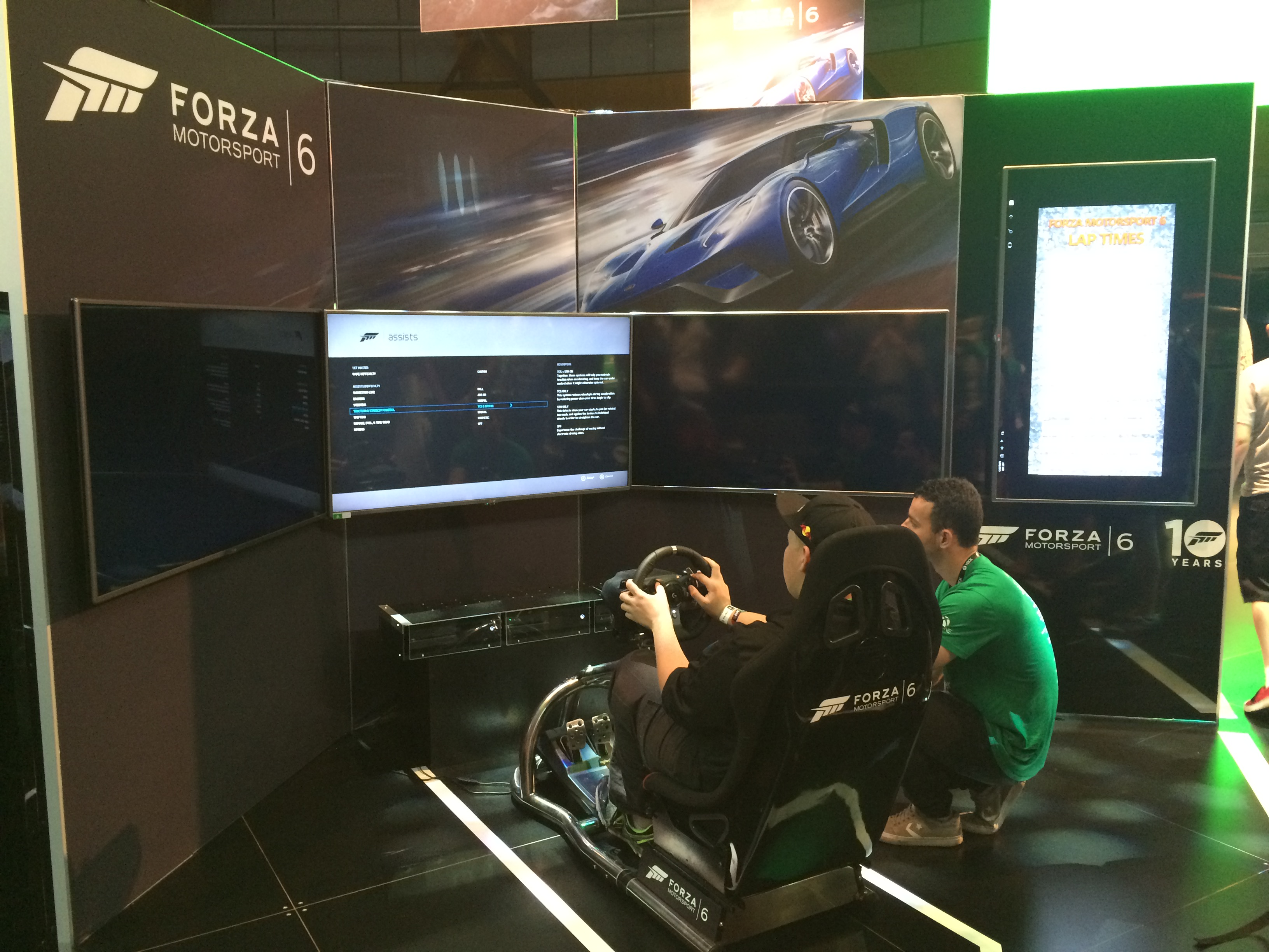 Forza Motorsport 6 was exhibited at the Xbox One booth during the EB Games Expo 2015 with three units for a traditional controller and one unit, shown in this image, using a racing wheel controller, with three screens in a first-person perspective.